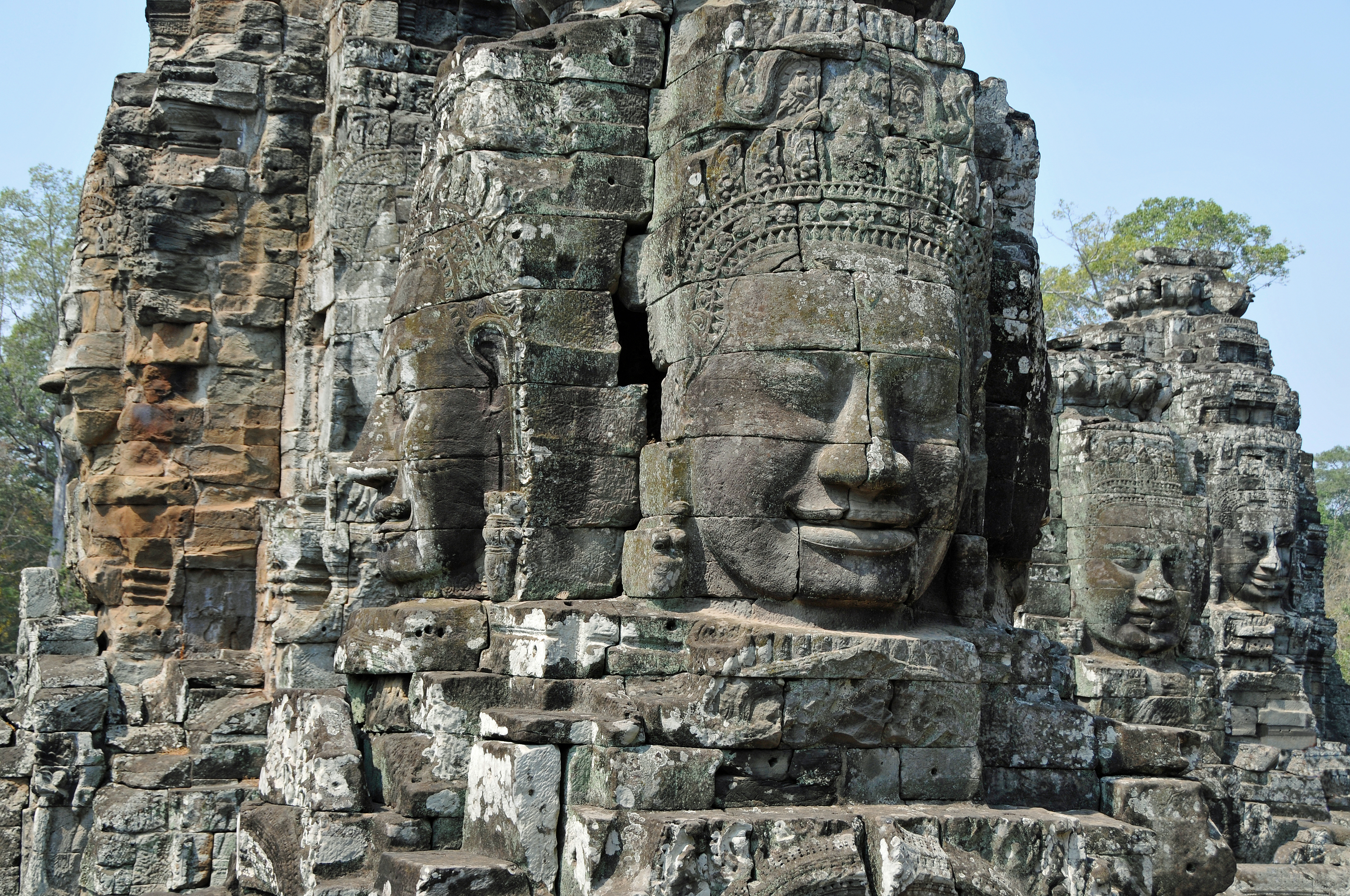 PLEASE, no multi invitations (none is better) in your comments. Thanks. This is the main thing that people come to take picture of, in the first picture it is possible to see five faces. In the second picture it is very clear they are different. Angkor Thom